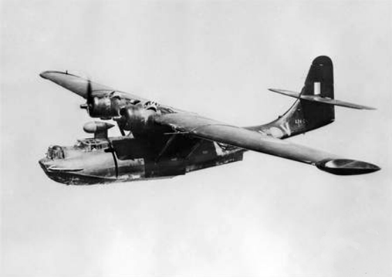 A Royal Australian Air Force Boeing-Canada PB2B-2 Catalina aircraft (s/n A24-362) in flight. This aircraft was delivered to the RAAF on 1 June 1945 and served with No. 43 Sqn ("DX-V"). It was transferred to 115 Air Sea Rescue Flight on 19 February 1946 and sold to Butler Air Transport on 11 October 1946. The aircraft is still flying.